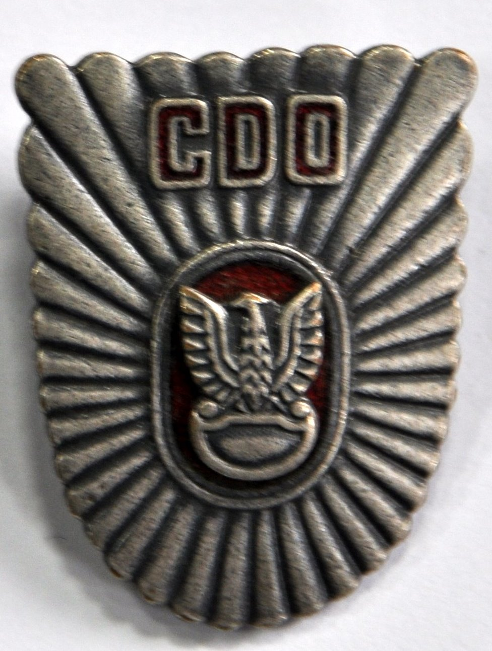 Bedge Center of Reengineering for Officers.